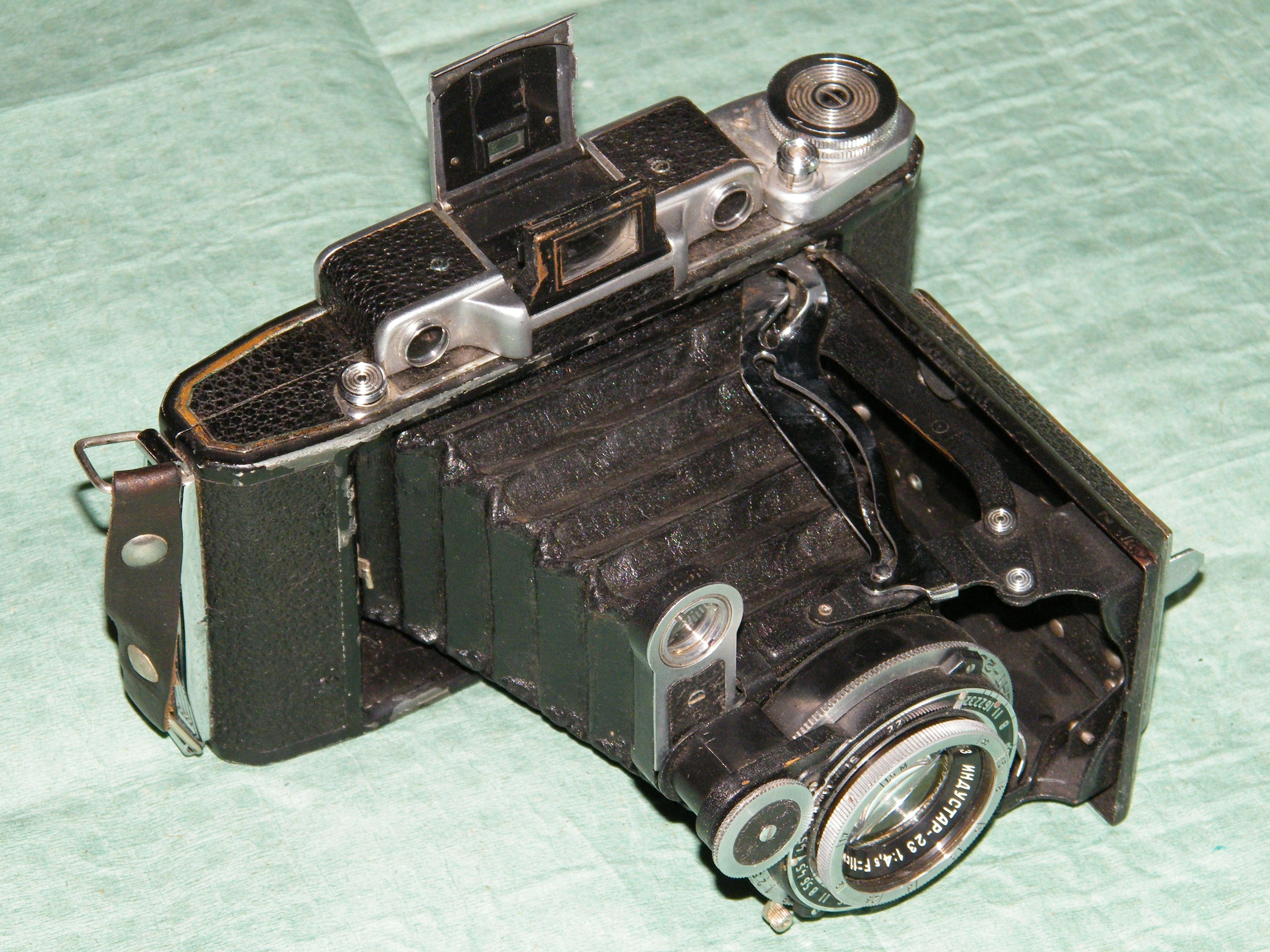 MOSKVA-4 KMZ camera